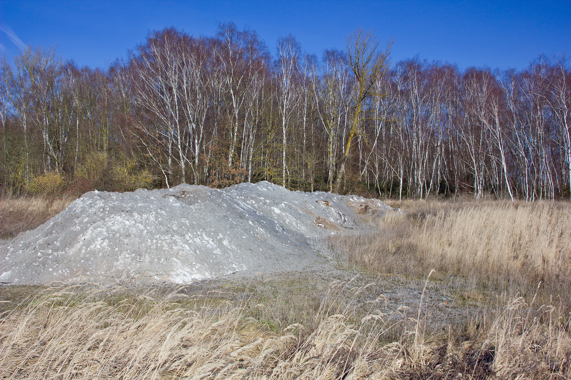 Salty habitat near Schreyahn (district Lüchow-Dannenberg, northern Germany). Inland far away from the coast; with typical vegetation, adapted to salty conditions. Here with little old salt mine dump of the former potash mining.